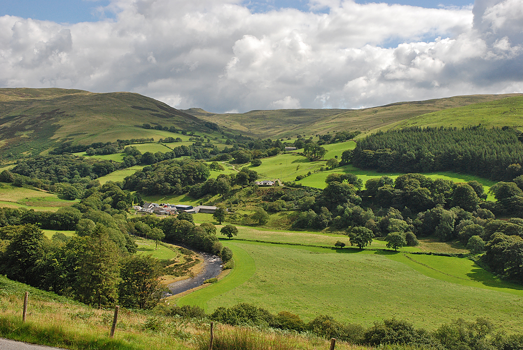 A view of Cwmystwyth looking across the only significant flat area of the cwm to be found before the river reaches maturity near Trawscoed some 6 miles further west. Beyond, steep slopes rise to the Elenydd moors. Opposite is the cwm of the Nant Milwyn, at the head of which is the small but distinctive hill of Domen Milwyn.